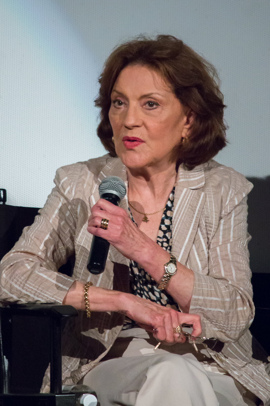 Kelly Bishop at the ATX TV Festival 2015 for the TV show Bunheads